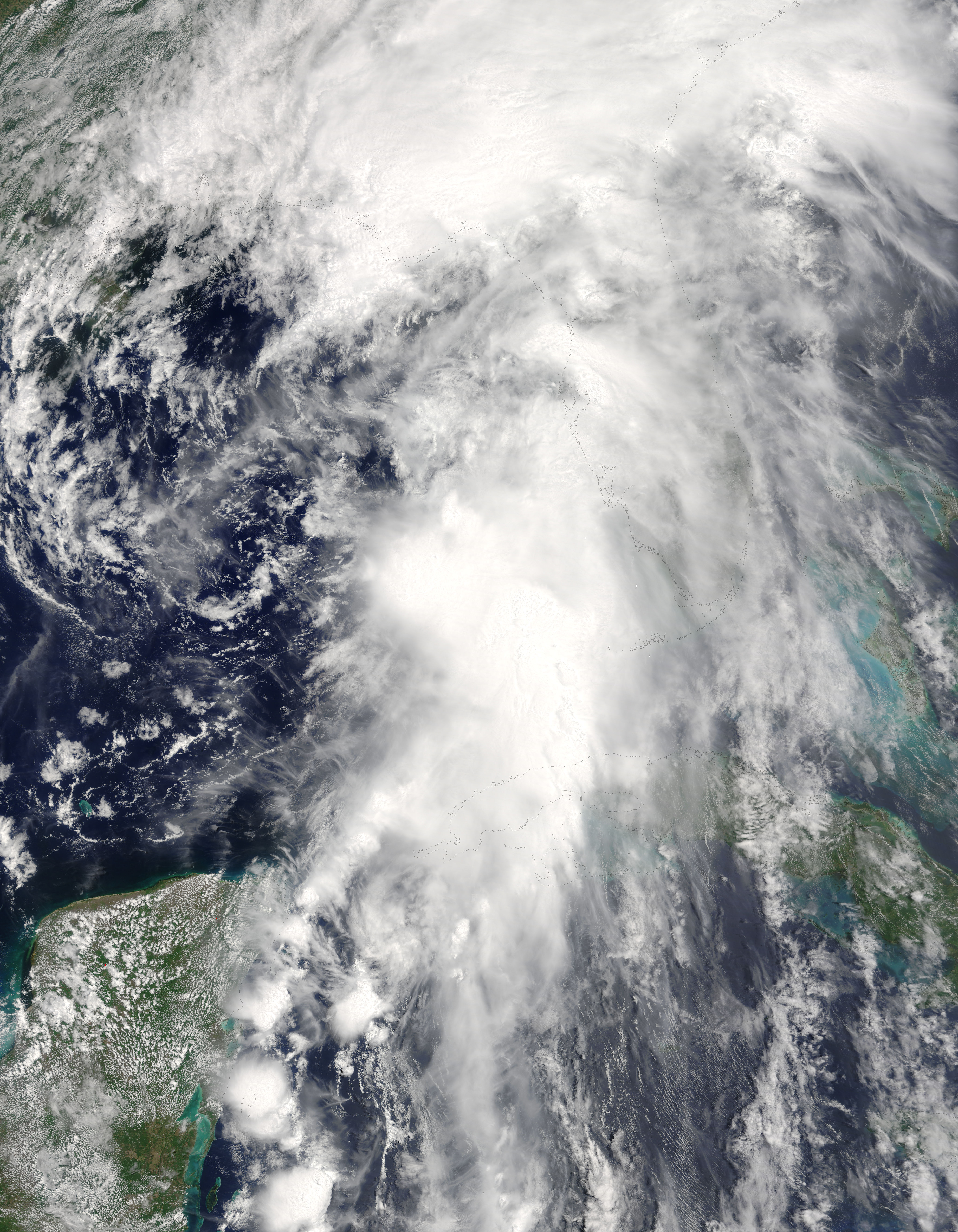 Tropical Storm Colin (03L) over the Gulf of Mexico